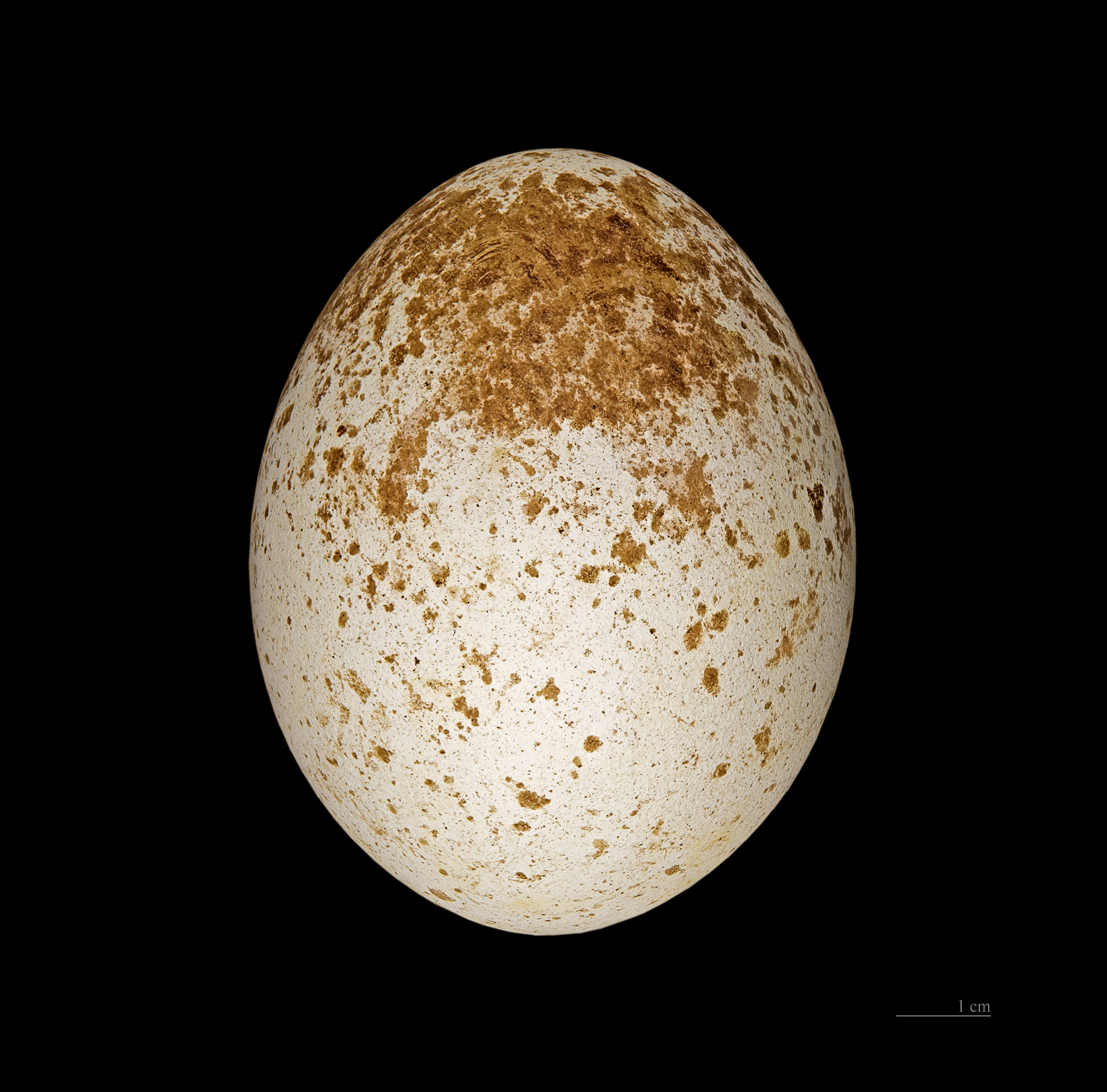 Egg of Hooded Vulture. Collection of Henri Heim de Balsac / Jacques Perrin de Brichambaut. Locality: Delta of Senegal, Senegal.